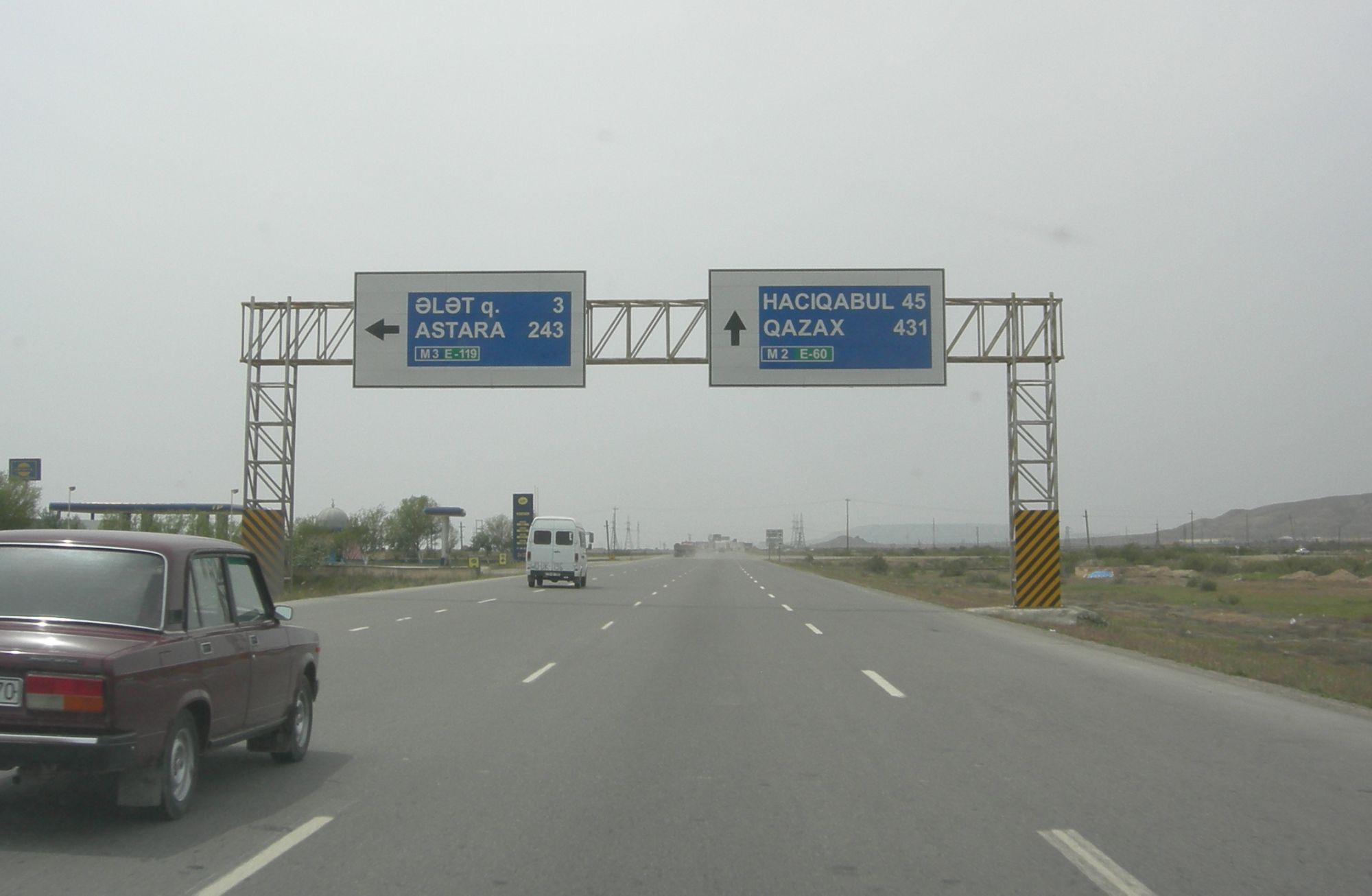 E60/E119 European highway junction near Ələt, Azerbaijan